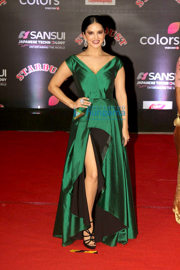 Sunny Leone graces Stardust Awards 2016